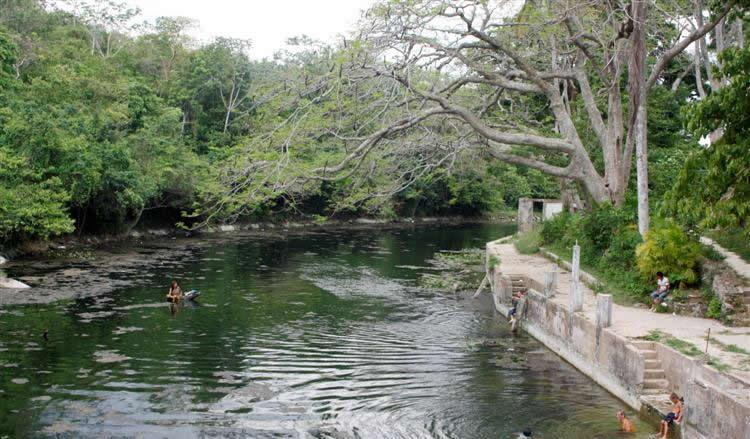 Ariguanabo river in San Antonio de los Baños, Cuba